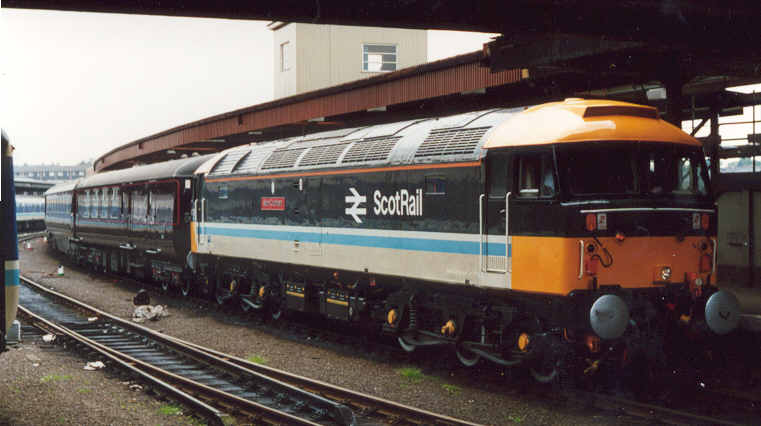 47702 with the Royal Train, York, 1988